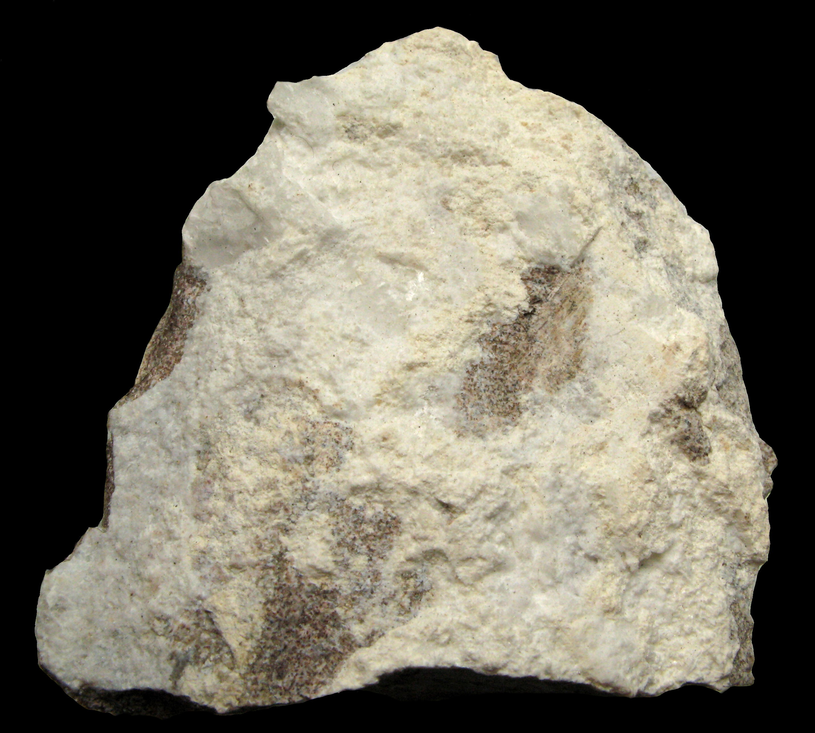 Portlandite, Ettringite Locality: Ettringer Feld, Kro. Mayen, Eifel, Germany Exposed in the Mineralogical Museum of University Bonn, Germany